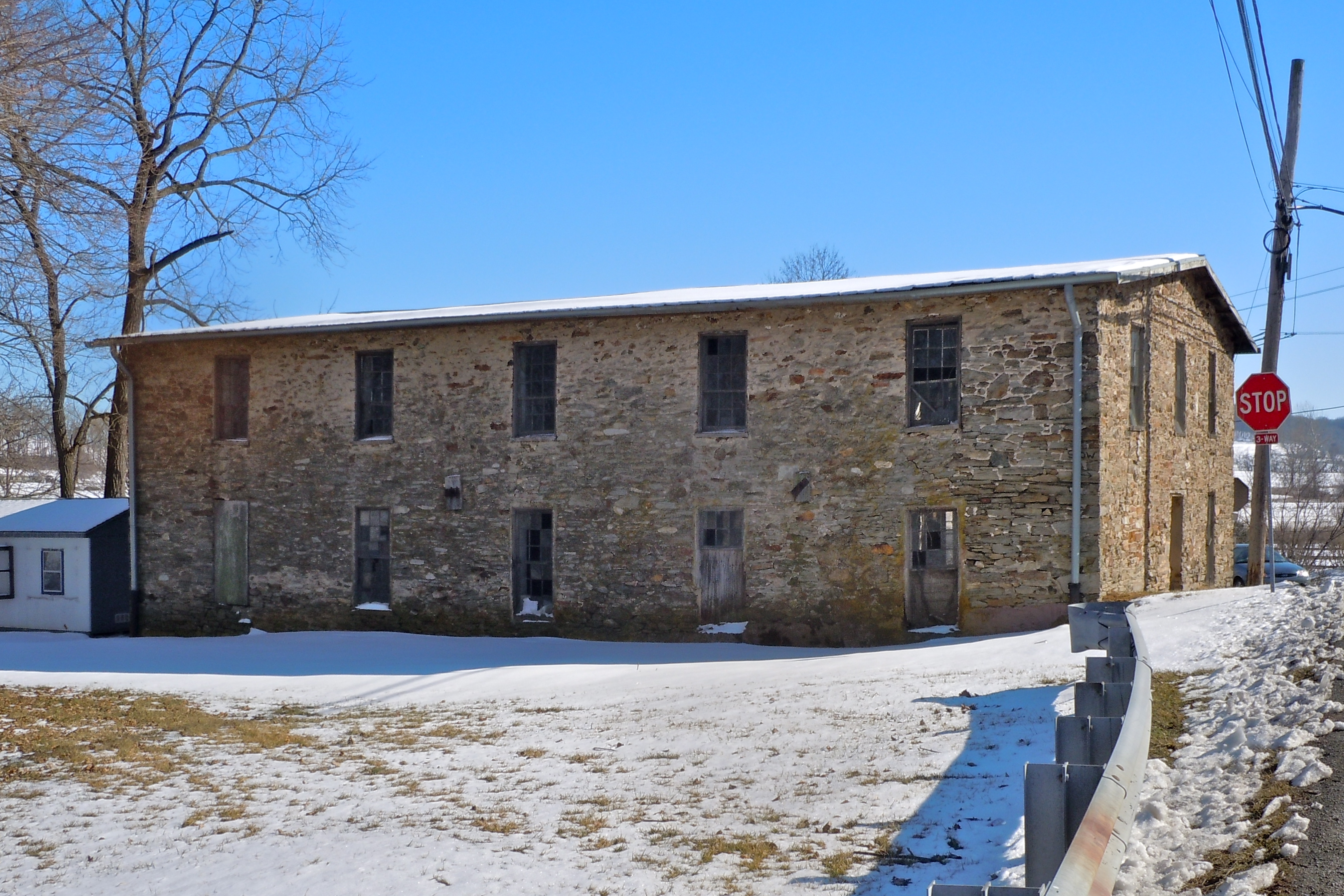 Mill in Doe Run Village Historic District on the NRHP since September 16, 1985. The historic district is bounded by Highland Dairy Rd., DuPont & Chapel Roads, and Pennsylvania Routes 82 (Doe Run Road) and 841 (Chatham Rd.). The mill is at the corner of 82 and 841, in the center of the village. In West Marlborough Township, Chester County, Pennsylvania